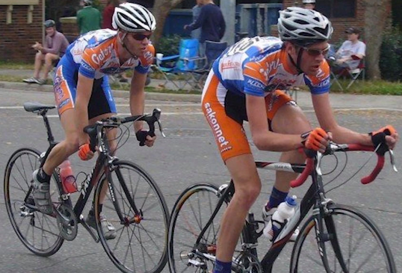 Notable alumni Phil Gaimon (front) and David Guttenplan